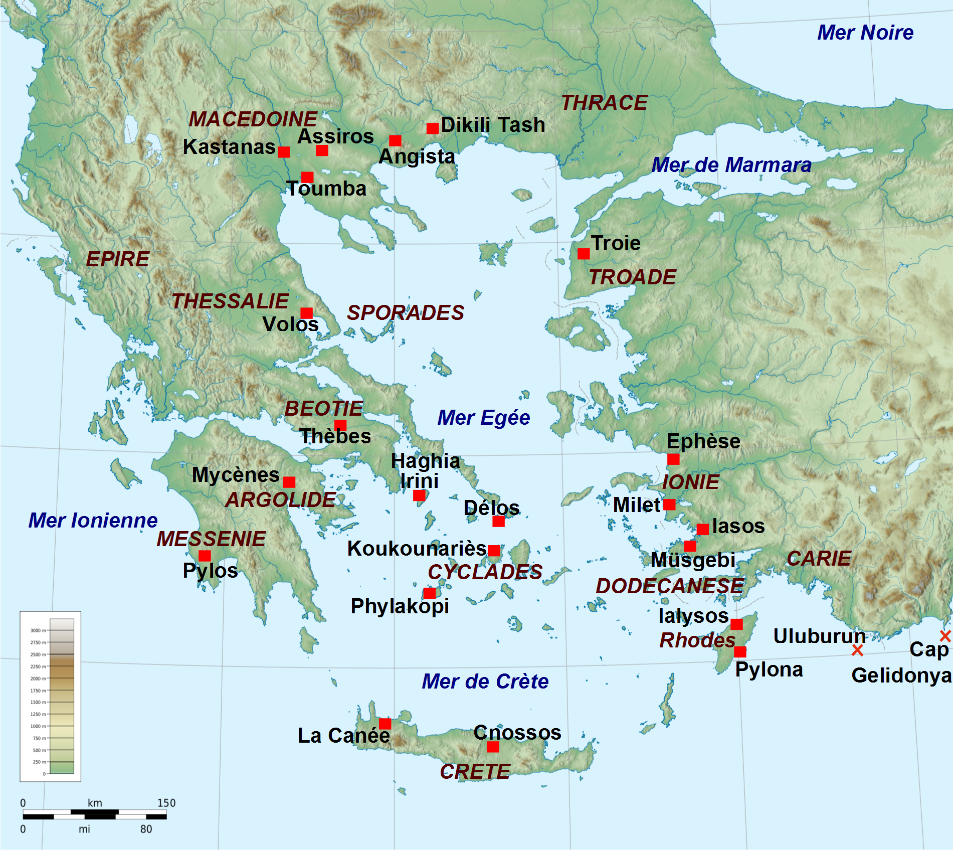 Sites in the Aegean world during the Mycenaean Period.